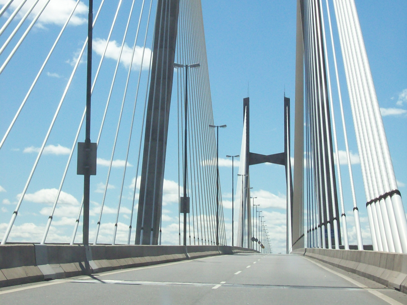 Rosario-Victoria Bridge, shot taken on route.